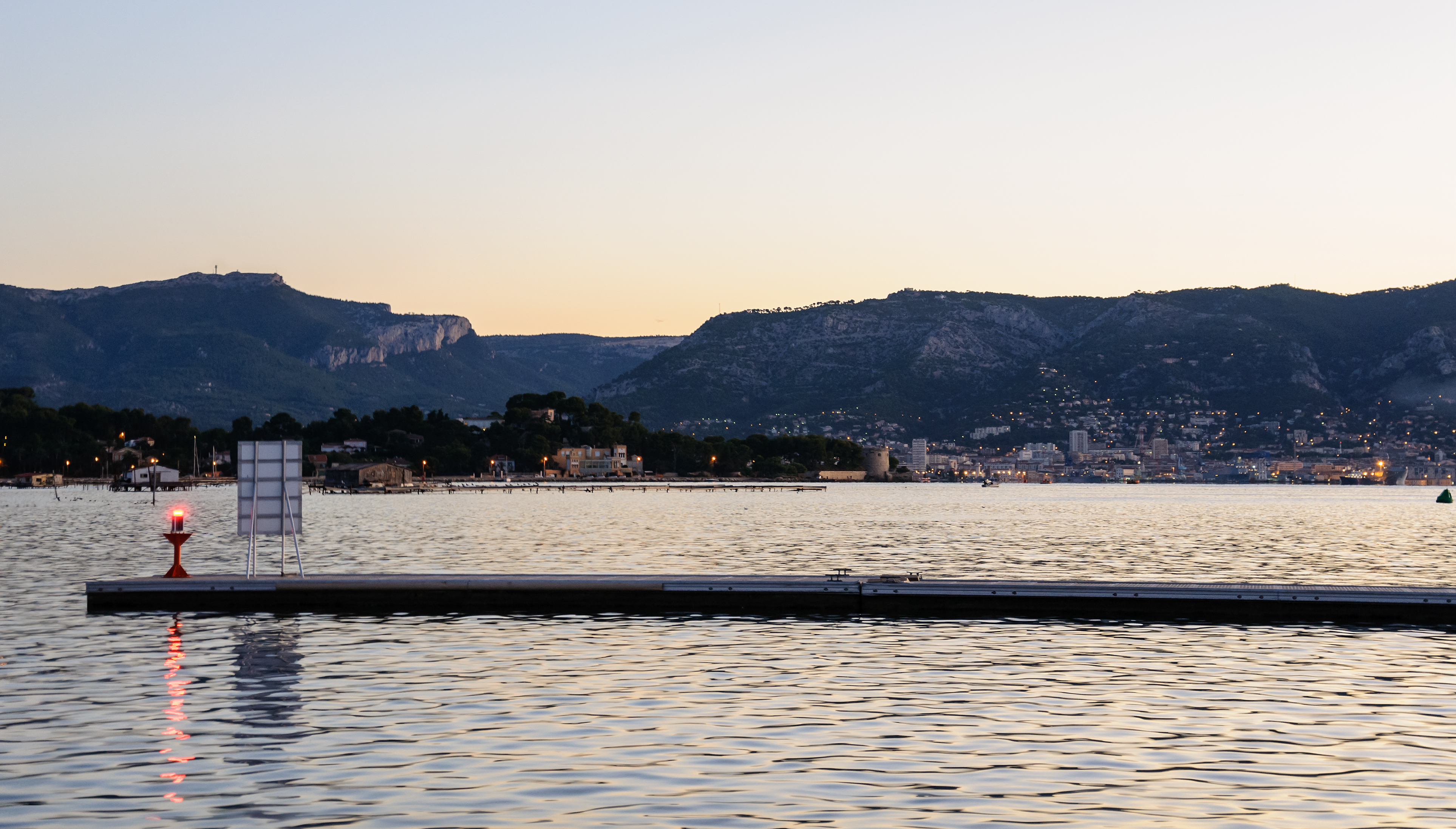 The “Bay of Toulon”, Var, France, seen from the presque-isle of Saint-Mandrier at daybreak.